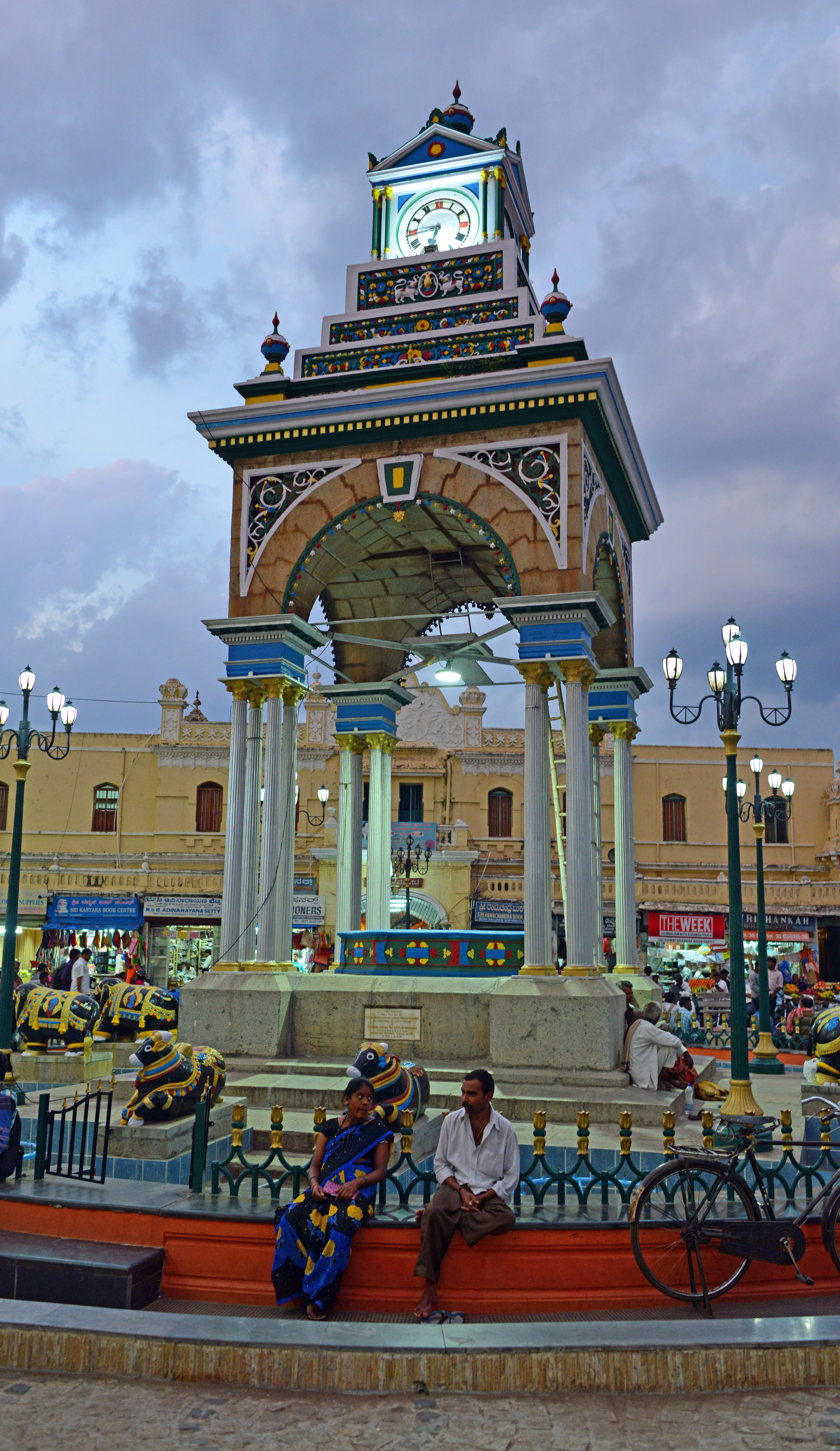 The Dufferin Clock Tower in Mysore (also known as Chikka Gadiyara or “small clock tower”). Commissioned to commenmerate the visit to Mysore in 1886 of Lord Dufferin, British Viceroy of India. Located at the south end of at the south end of Devaraja Market.